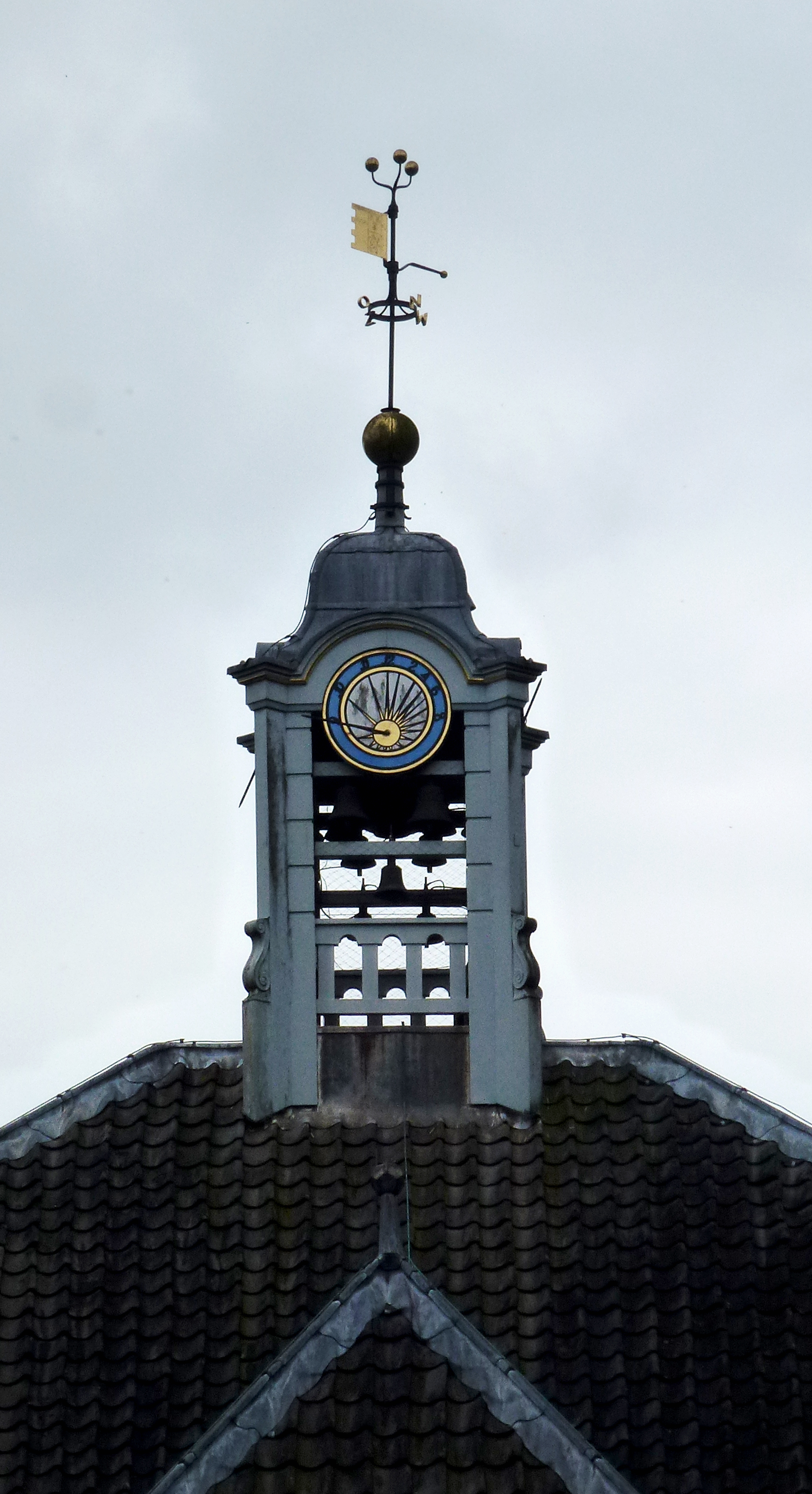 Vertical sundial, weather vane and carillon on Sparrendaal